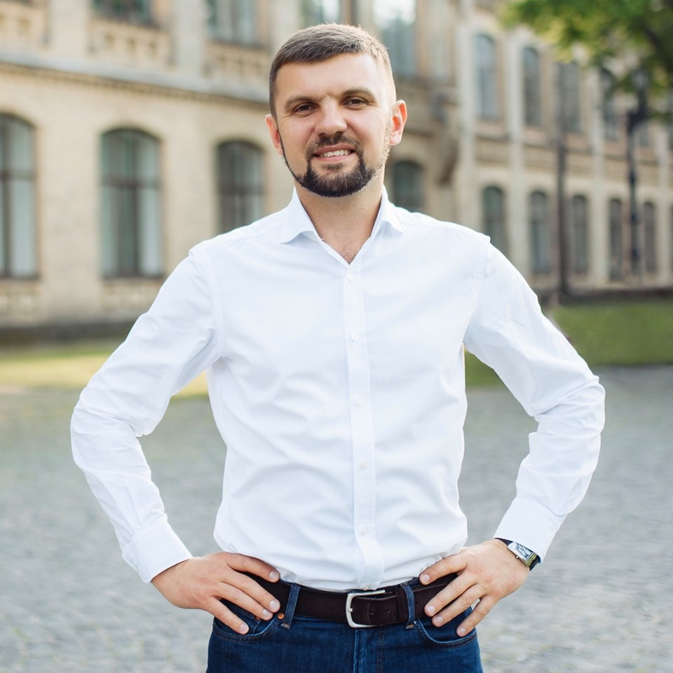 Ihor Guzj